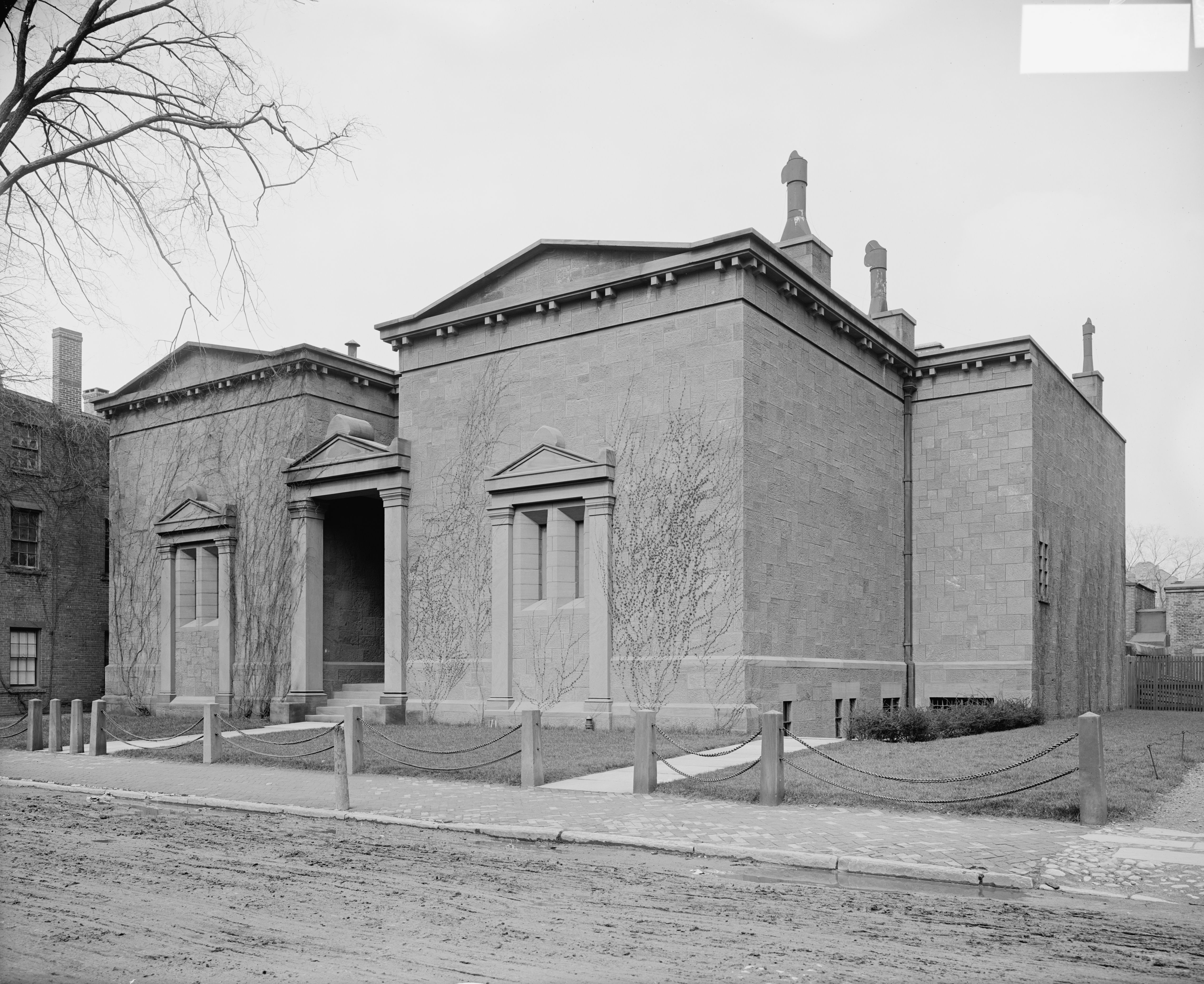 Hall of Skull and Bones fraternity house, Yale University, New Haven, Conn